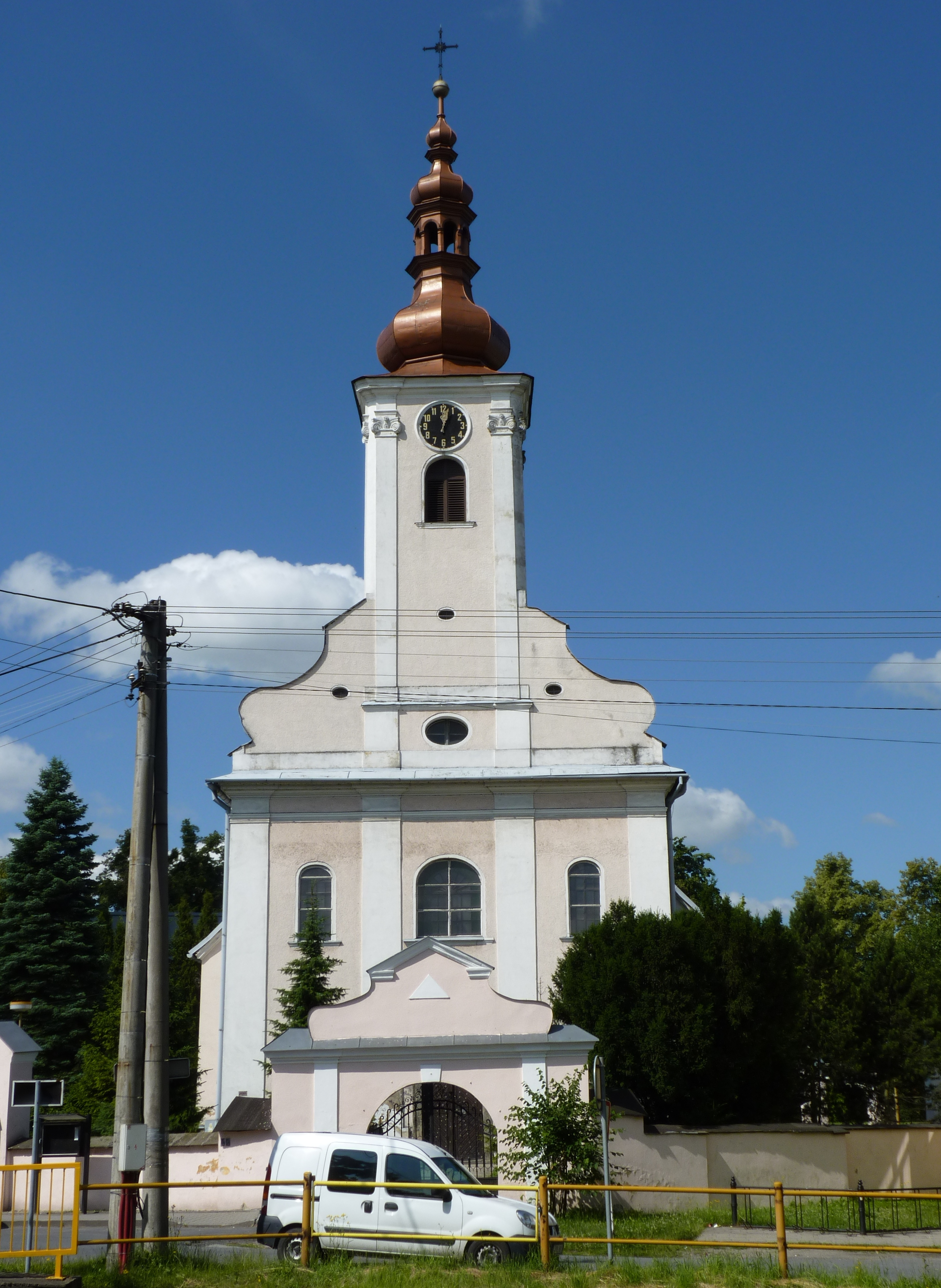 Paskov. Frýdek-Místek District, Moravian-Silesian Region, Czech Republic